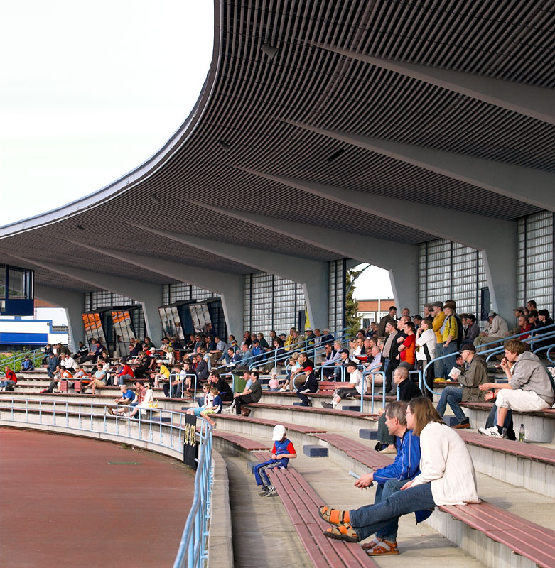 Sankariniemi track & field stadium (also a football venue) in Iisalmi, Finland. Finnish Cup 5th round: June 11, 2006. PK-37 of Iisalmi vs. KuPS of Kuopio 0–5 (0–2).